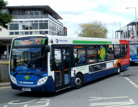 Stagecoach in South Wales bus 27693 (reg. CN60CVL), a 2010 Alexander Dennis Enviro300 single-decker, pictured entering Cwmbran bus station, Torfaen, en route to Blaenavon on route X24, for which it wears route branding.